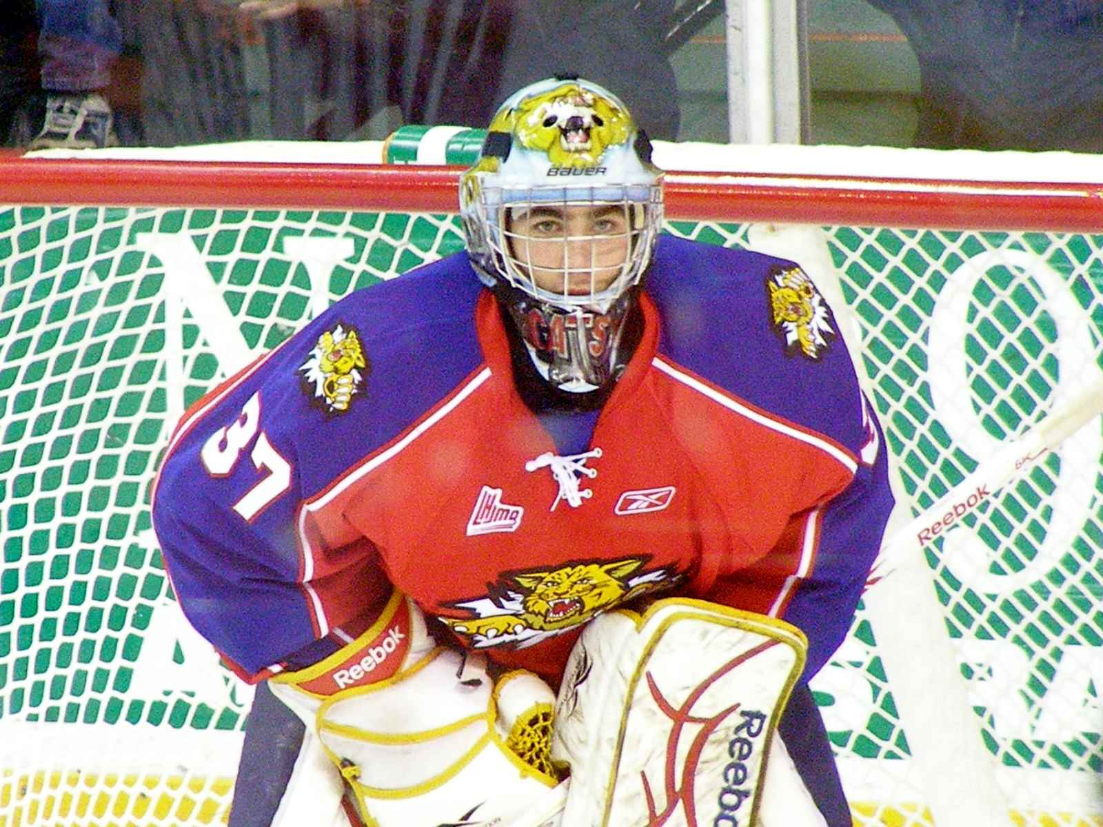 Louis Domingue, Canadian ice hockey goaltender